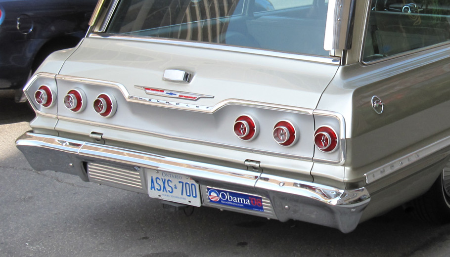 A 1960s Chevrolet Impala station wagon. And considering the harsh Toronto winters, it is extremely difficult to maintain an old vehicle in mint condition like this. There is an "Obama '08" bumper sticker visible. I am not sure if this is an American expatriate, or a Canadian with a healthy interest in US politics; peeking in to check the speedometer wouldn't help, as the speedometer would definitely be in miles per hour, since Canada did not go metric until the 1970s.